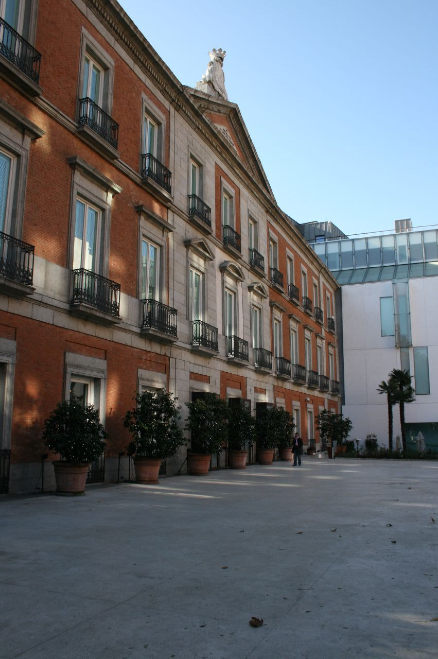 North façade of Villahermosa Palace (Thyssen-Bornemisza Museum) in Madrid (Spain).